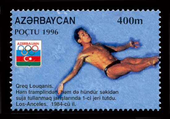 Stamp of Azerbaijan